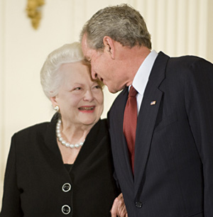 Original description: The 2008 National Medal of Arts was awarded to Olivia de Havilland and presented by President Bush on November 17, 2008 in an East Room ceremony. de Havilland was honored "for her persuasive and compelling skill as an actress in roles from Shakespeare's Hermia to Margaret Mitchell's Melanie. Her independence, integrity, and grace won creative freedom for herself and her fellow film actors." The National Medal of Arts is a presidential initiative managed by the National Endowment for the Arts. Photo by James Kegley for the National Endowment for the Arts.